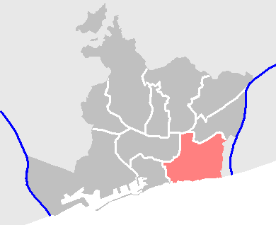 Locator maps of districts/ neighbourhoods in Barcelona: Map - Barcelona - Sant Marti.PNG